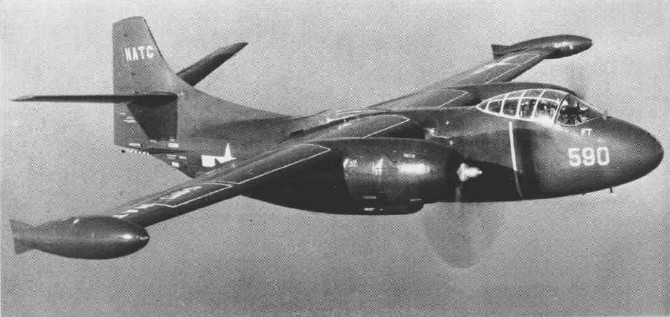 A North American AJ-1 Savage bomber of the Naval Air Test Center (NATC) at Naval Air Station Patuxent River, Maryland (USA), in 1950. This aircraft is the first production AJ-1, BuNo. 122590.